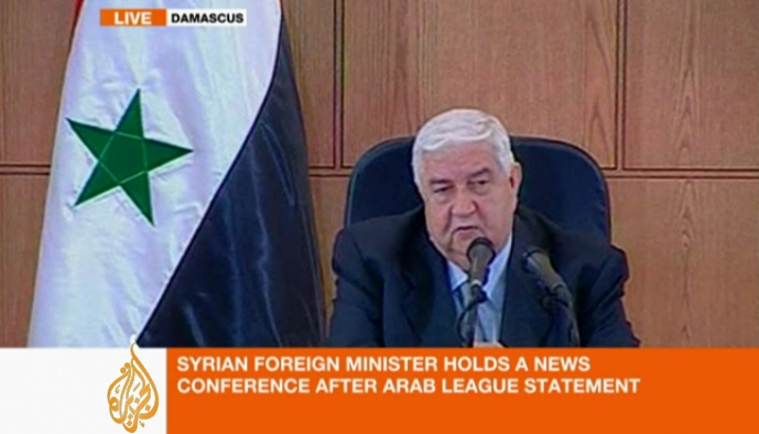 Foreign Minister Walid al-Moualem attacks regional bloc after it rejects proposed amendments to observers mission.